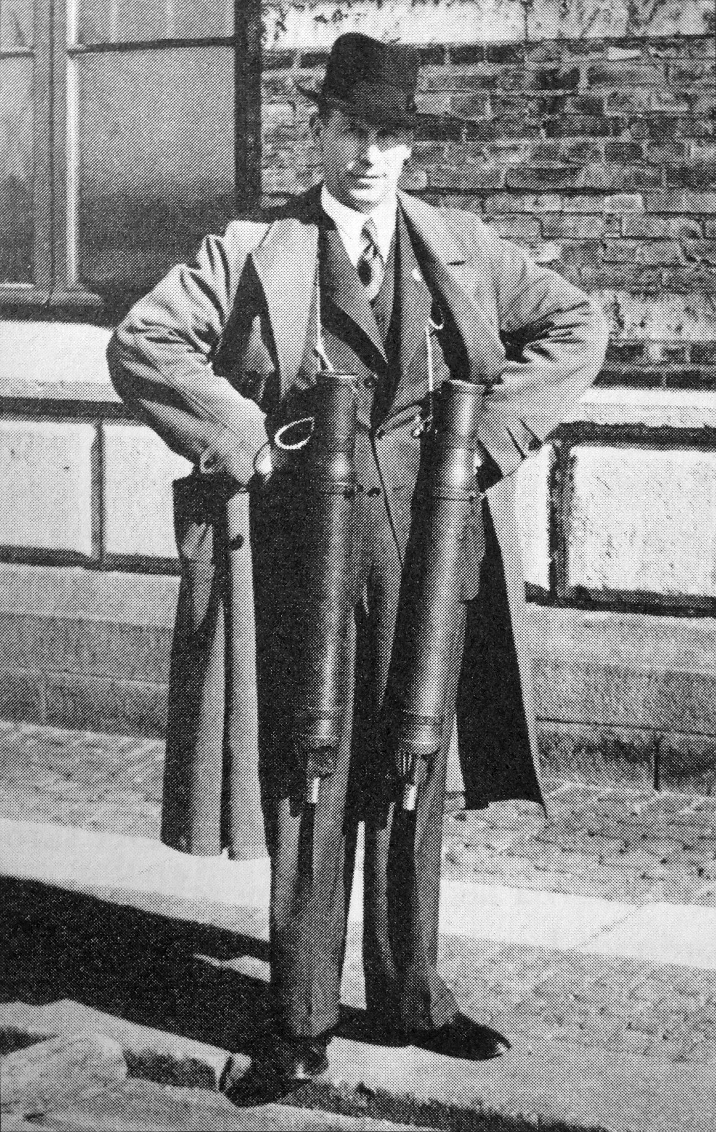 "Two barrrels could be concealed under the overcoat". Picture from investigation by the Swedish Chancellor of Justice, regarding how the smuggling of arms and ammunition to the norwegian "Kvarstad-ships" could have been done.